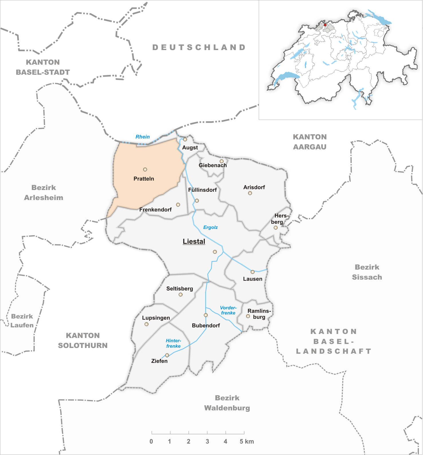 Municipality Pratteln